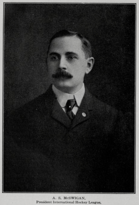 Ice hockey executive Andrew S. McSwigan.